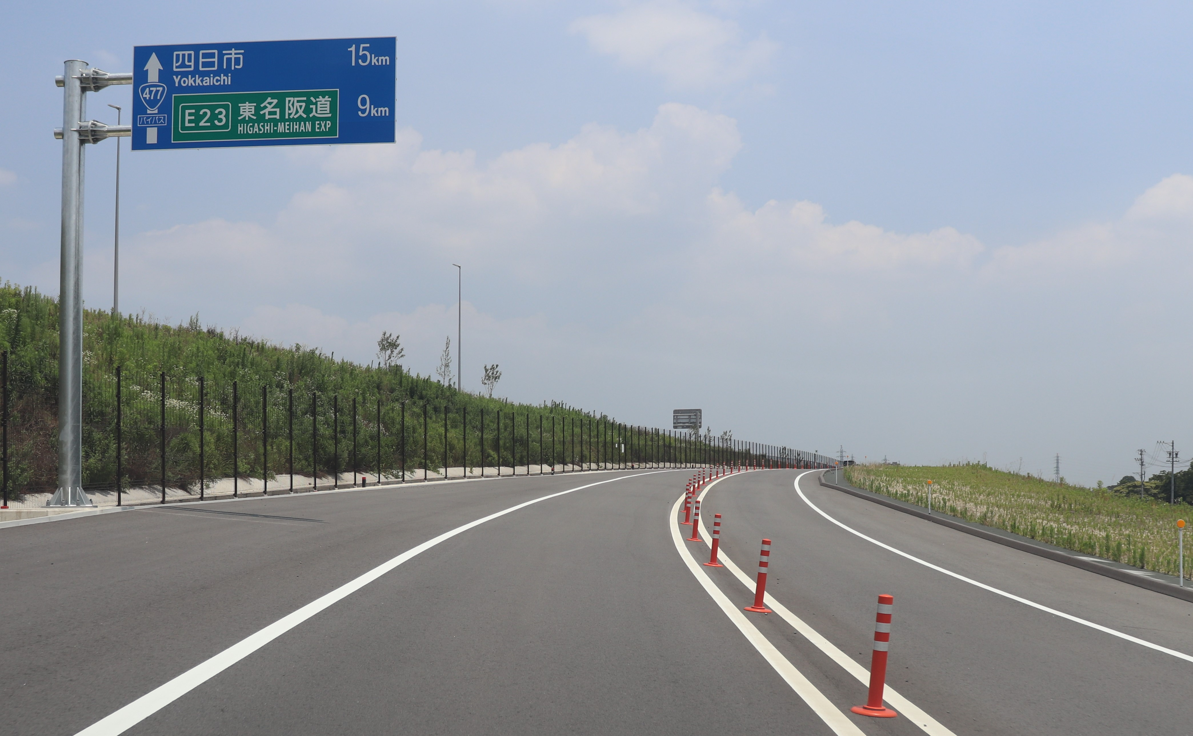 Route 477 bypass in Komono, Mie Prefecture, Japan.